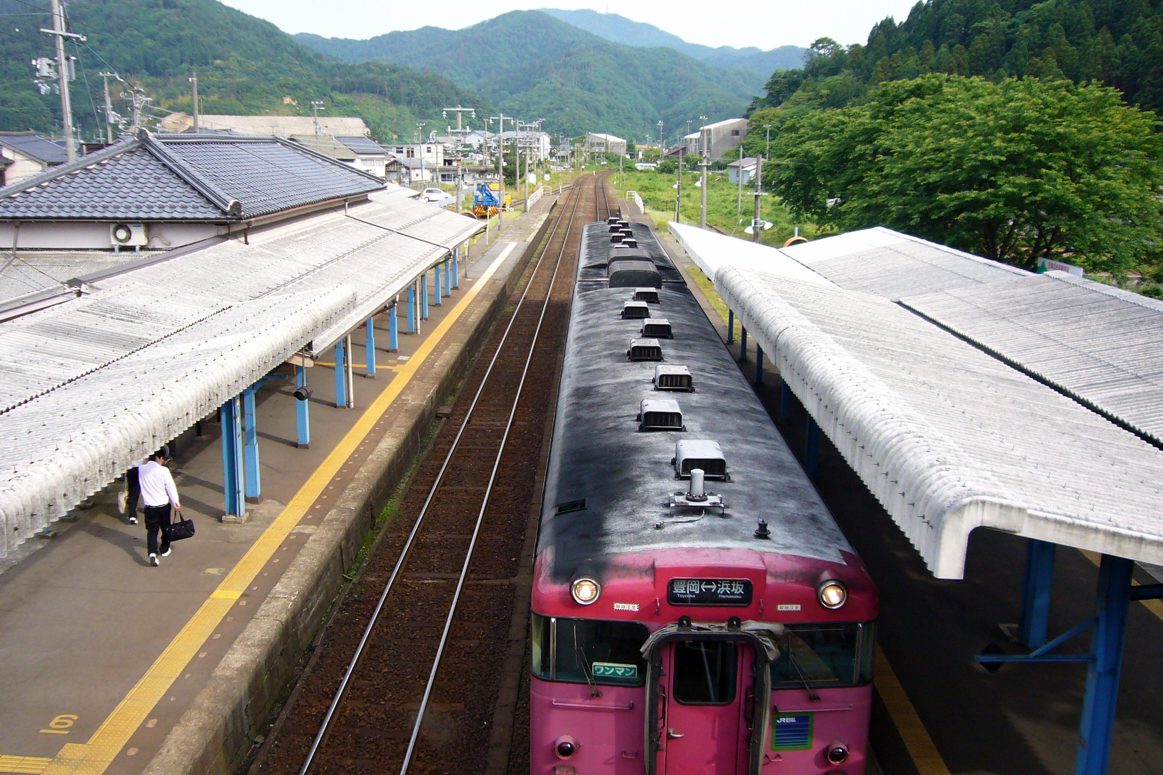 Takeno Station in Toyooka, Hyogo prefecture, Japan